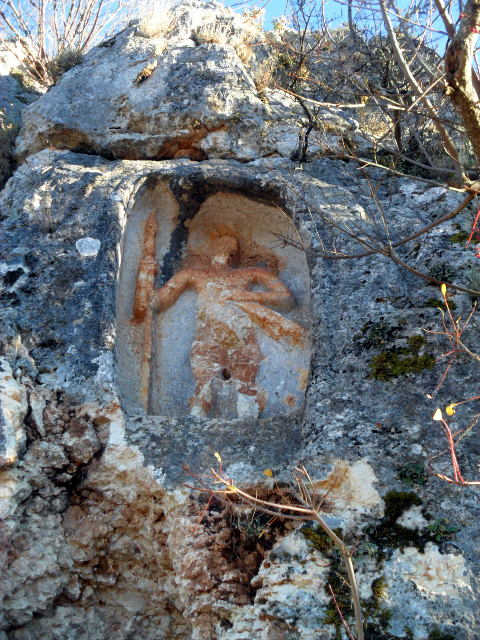 Veyselli rock relief, Mersin Province, Turkey